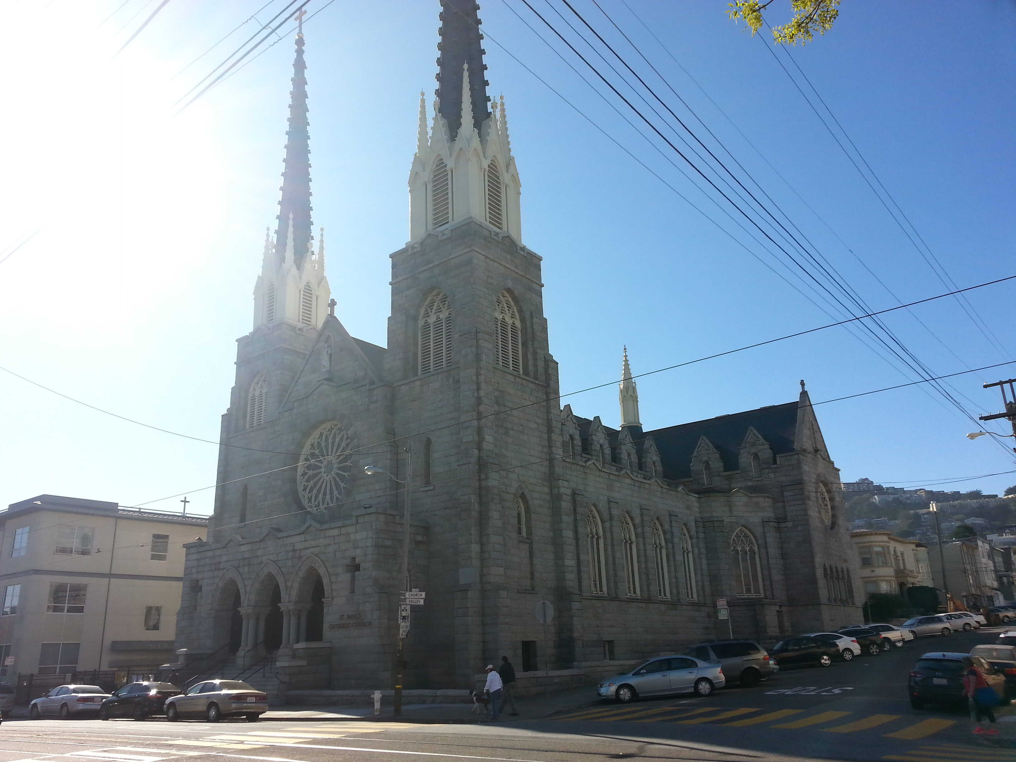 St. Paul's Catholic Church on Church St.